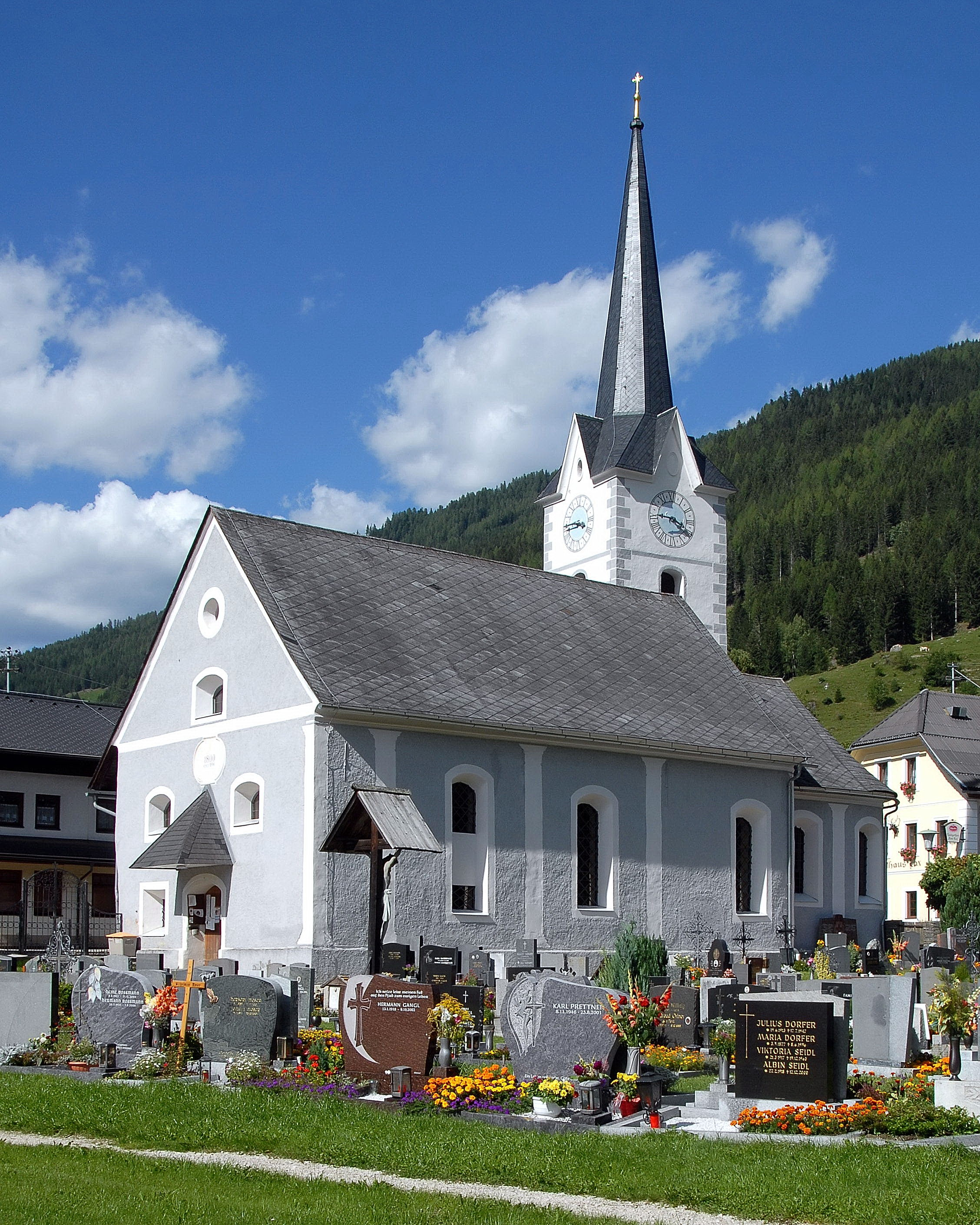 Parish church Saint Martin in Ebene Reichenau, municipality Reichenau, district Feldkirchen, Carinthia, Austria, EU}